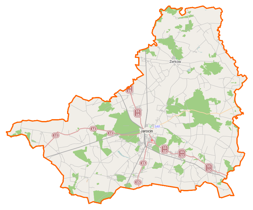 Map of Powiat jarociński, Poland This map of Powiat jarociński was created from OpenStreetMap project data, collected by the community. This map may be incomplete, and may contain errors. Don't rely solely on it for navigation. Border coordinates52.152917.1723←↕→17.736751.8642